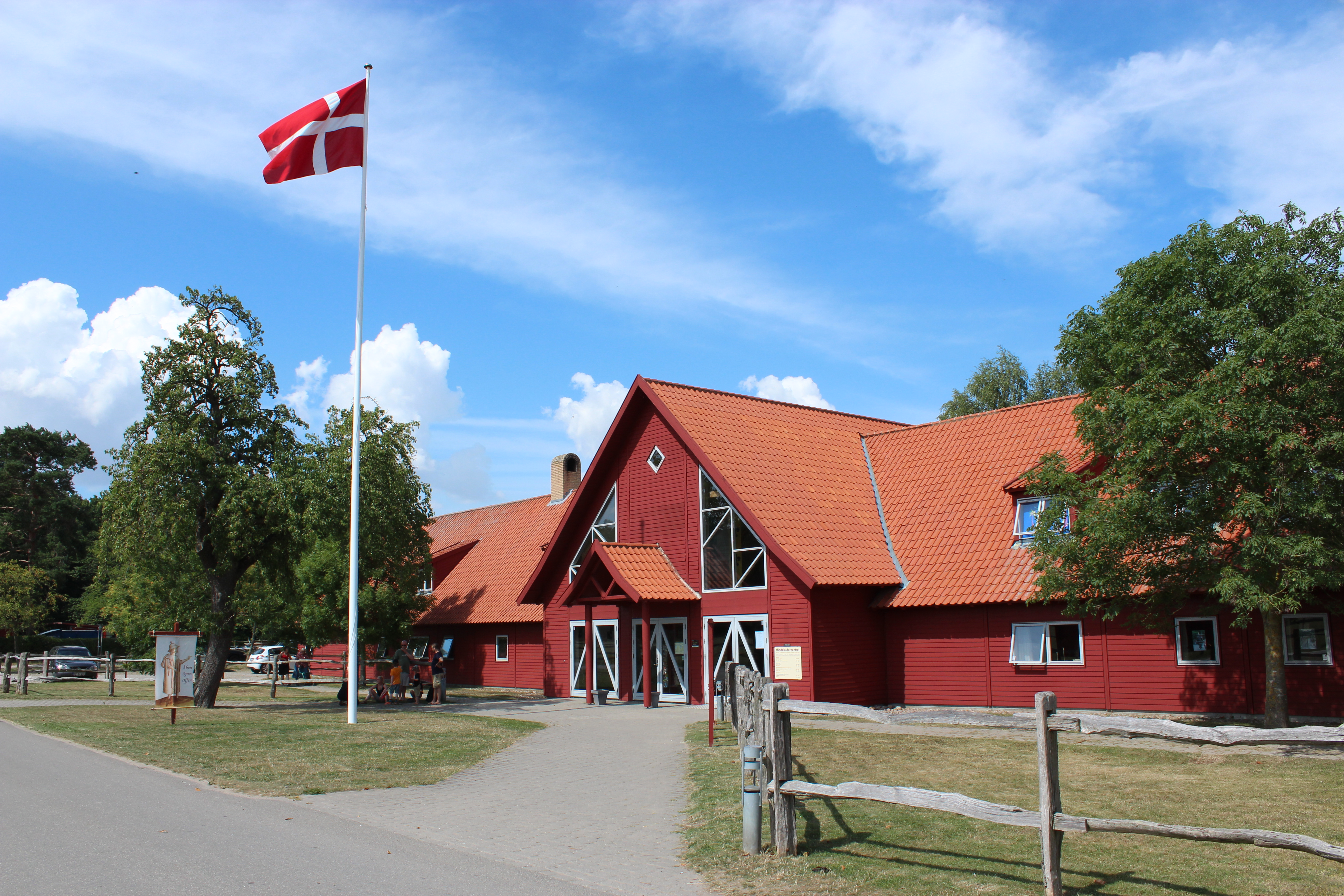 Entrance building at Middelaldercentret.